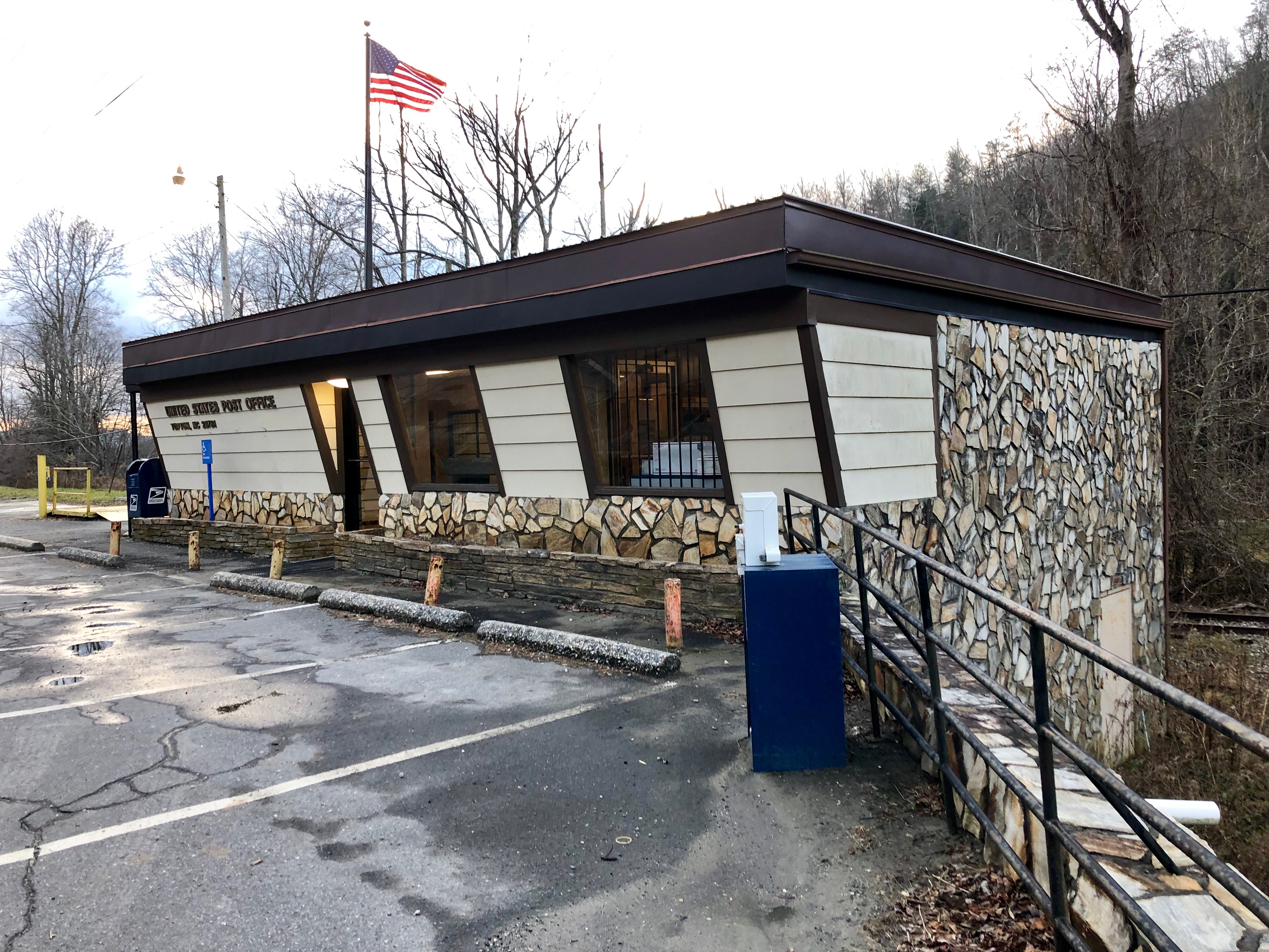 This is the Post Office in the community of Topton, North Carolina. The distinctive building originated in the mid-20th Century as a drive-in restaurant, later being renovated for usage as the community post office. Today, it is a landmark to motorists along US 19 between Andrews and Bryson City.